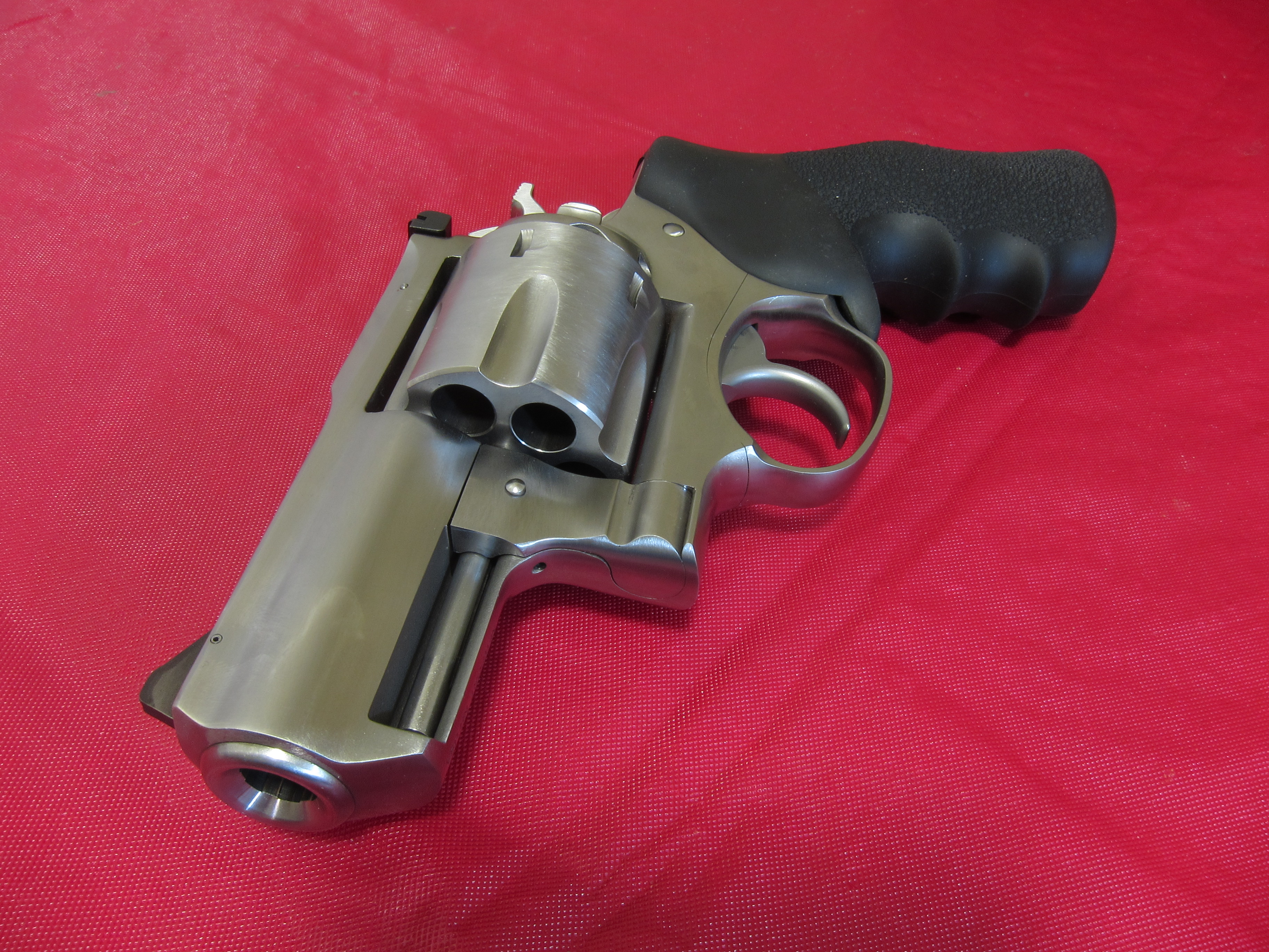 The Ruger Super Redhawk Alaskan revolver in .44 Magnum